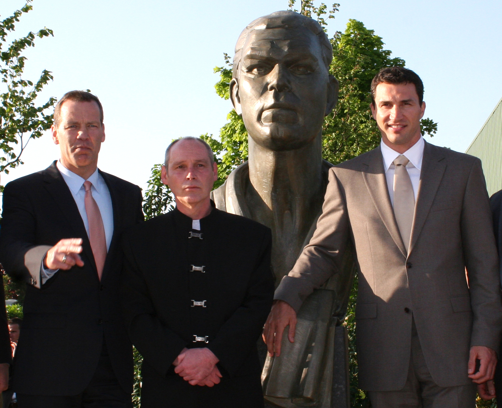 Max Schmeling monument with sculptor Carsten Eggers and box-champions Henry Maske (l.)and Wladimir Klitschko (r.)after unveiling of the artwork in Germany